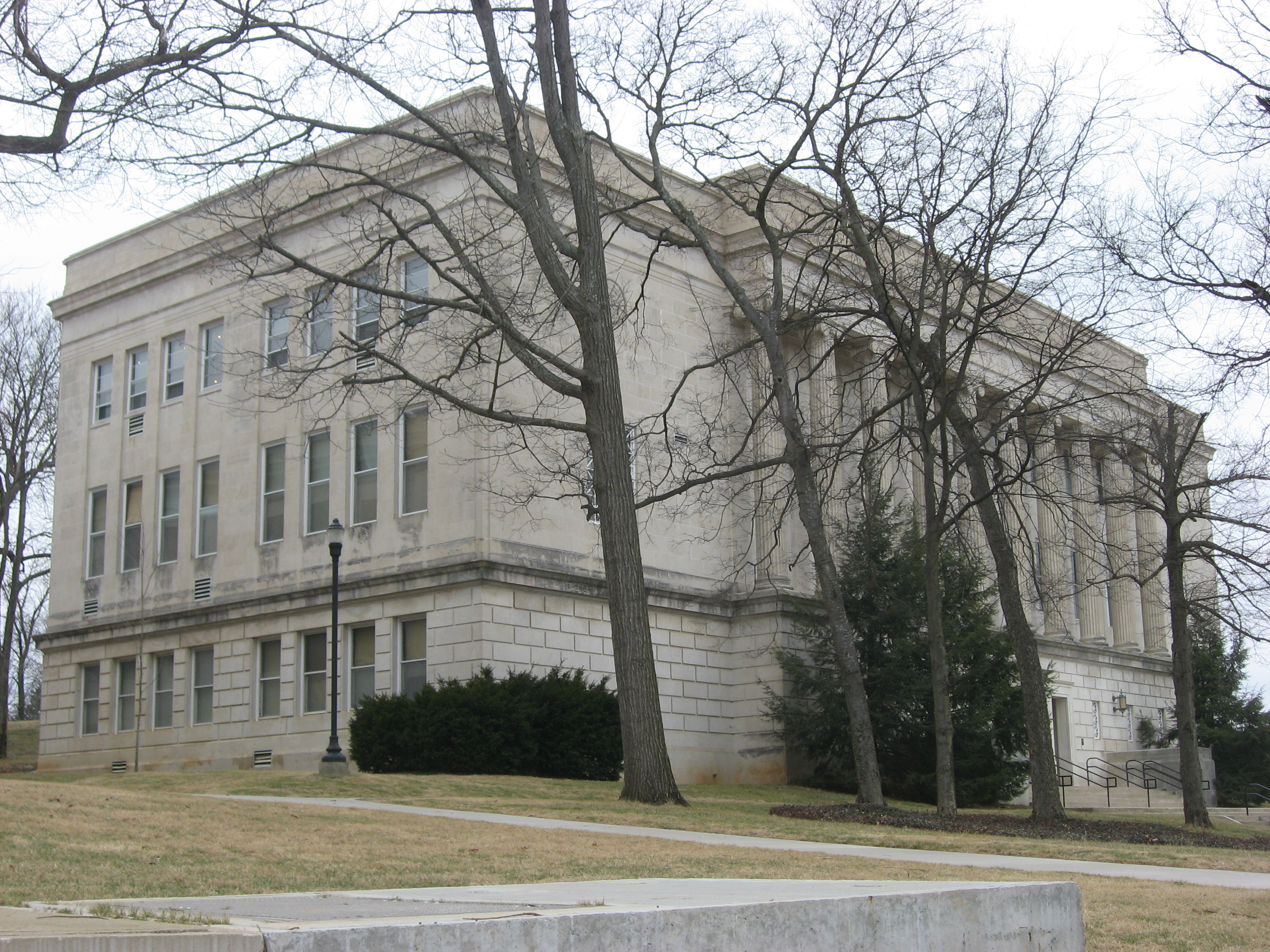 Front and southern side of Gordon Wilson Hall on the campus of Western Kentucky University in Bowling Green, Kentucky, United States. Built in 1927, it is listed on the National Register of Historic Places.